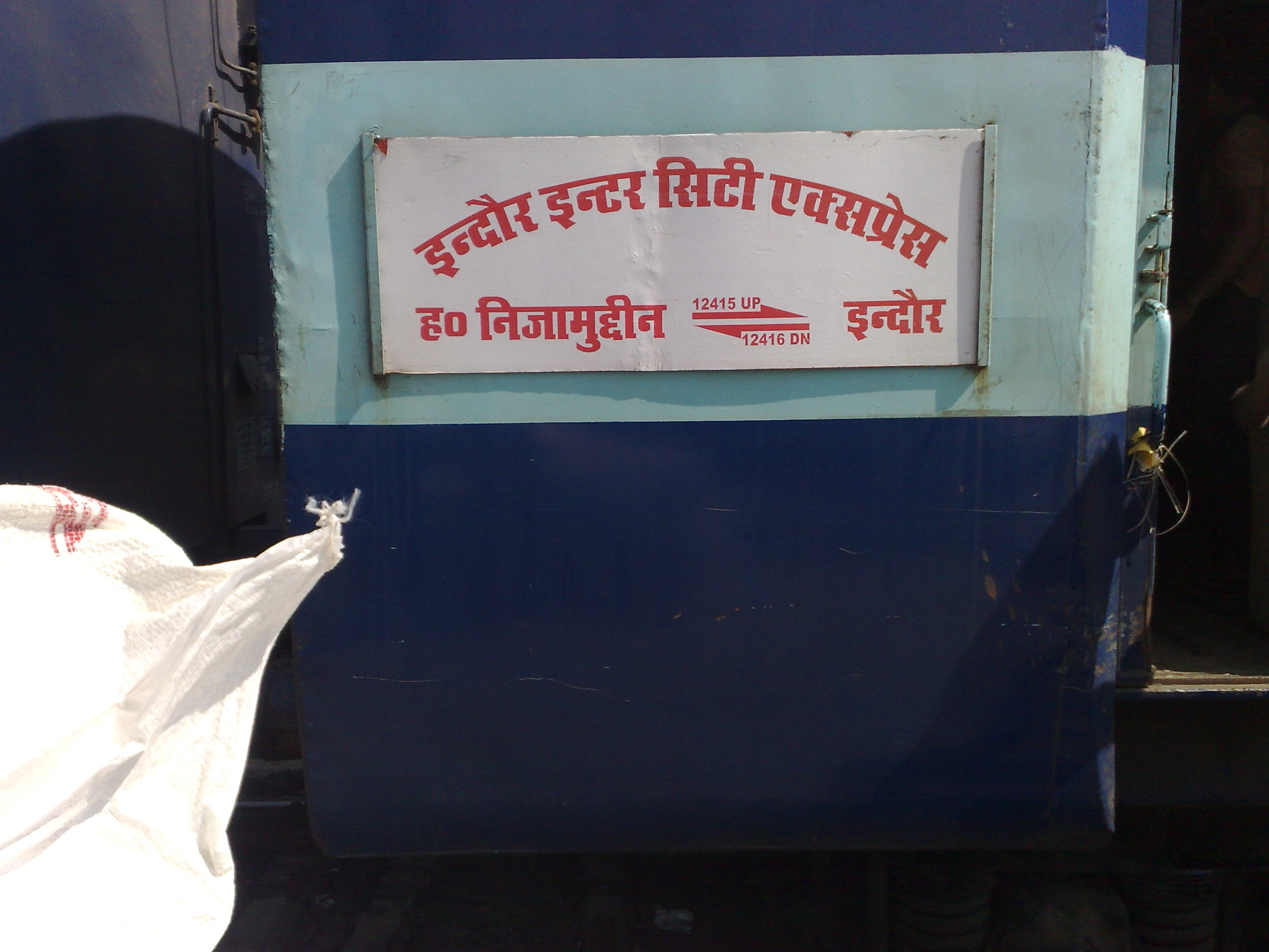 12416 Indore Intercity Express